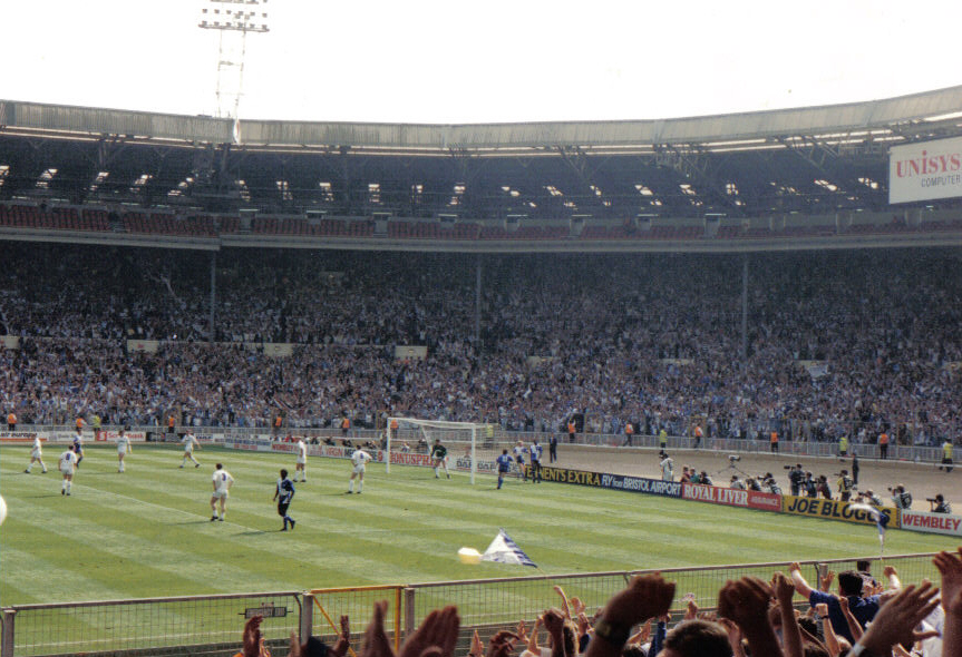 The Leyland Daf cup final between Bristol Rovers and Tranmere Rovers at Wembley on May 20th 1990. In this picture, Devon White has just equalised for Bristol Rovers, although Tranmere went on to win the game 2-1. Nonetheless it was a major achievement for the Pirates to reach a Wembley final and the 1989/90 season brought much greater success than any realistic Bristol Rovers fan could have dreamed of.